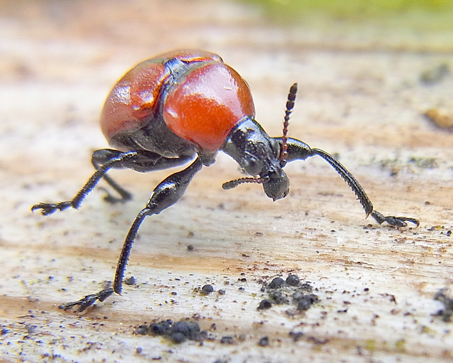 Attelabus nitens from France, north-east of Carcassonne